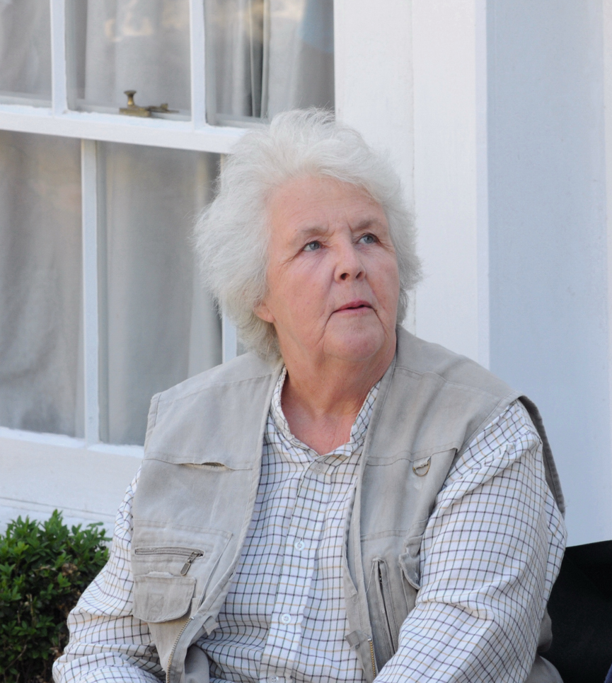 Stephanie Cole on set Doc Martin Series 4 in Port Isaac